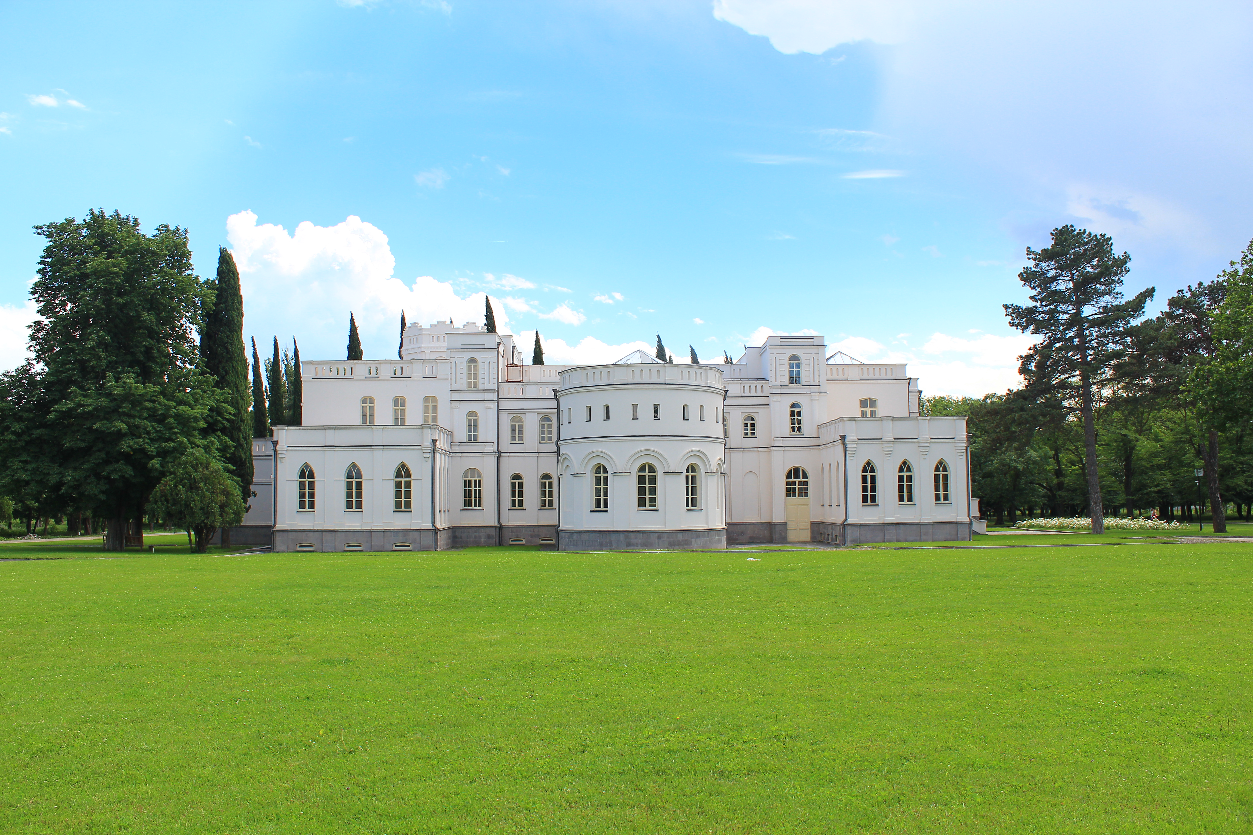 "Château Mukhrani", the Mukhranbatoni palace in Mukhrani village, built from 1873 to 1885 and restored in 2012.